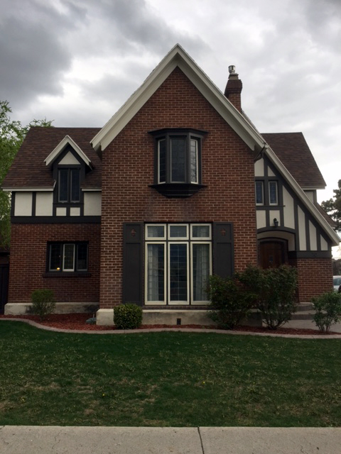 Vasco Tanner Home